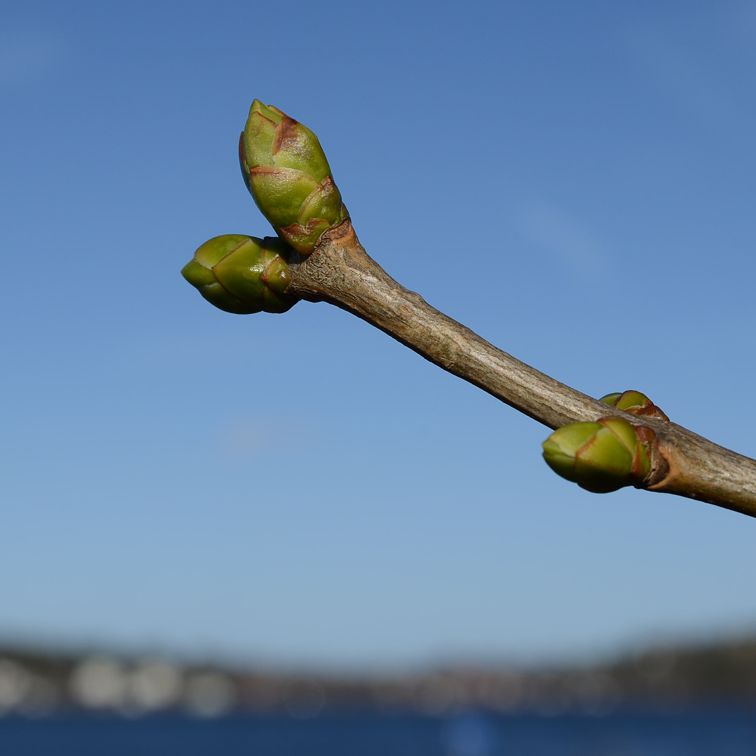 Vaxholm March 2014